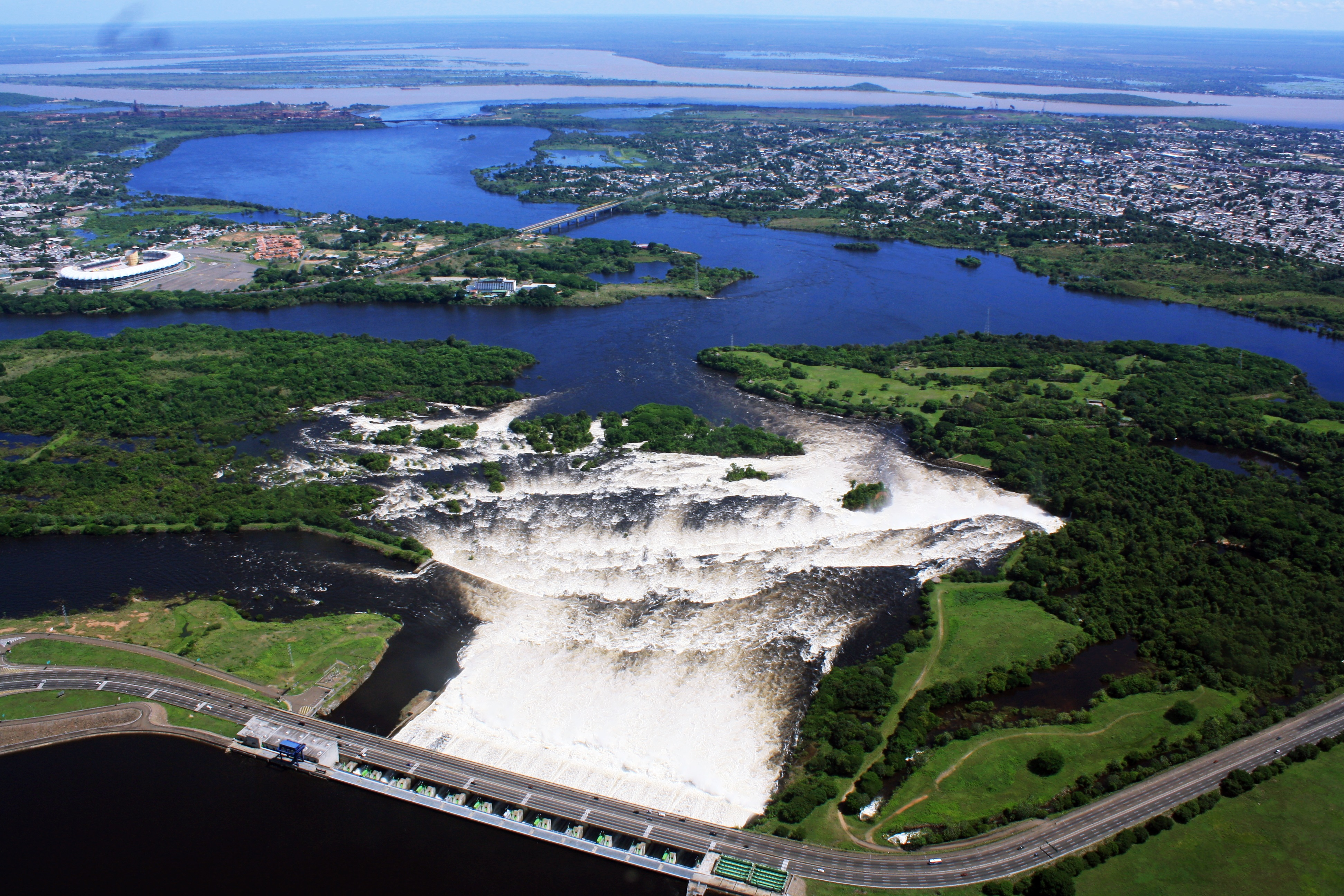 Compuertas abiertas de la Central Hidroelectrica Antonio Jose de Sucre (Macagua) - a la izquierda el Parque la Llovizna y al fondo la unión de los ríos Caroní y Orinoco